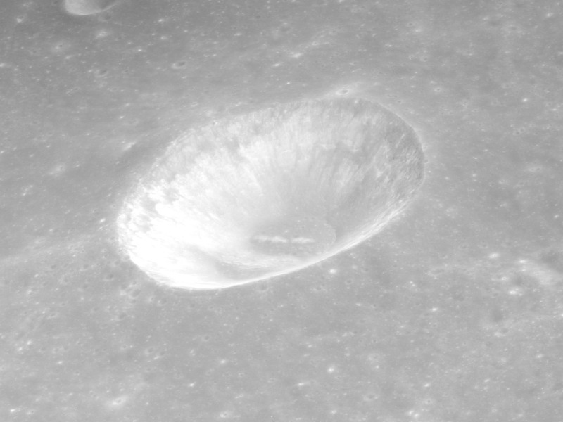 Oblique view of Bancroft crater, on the moon, facing north